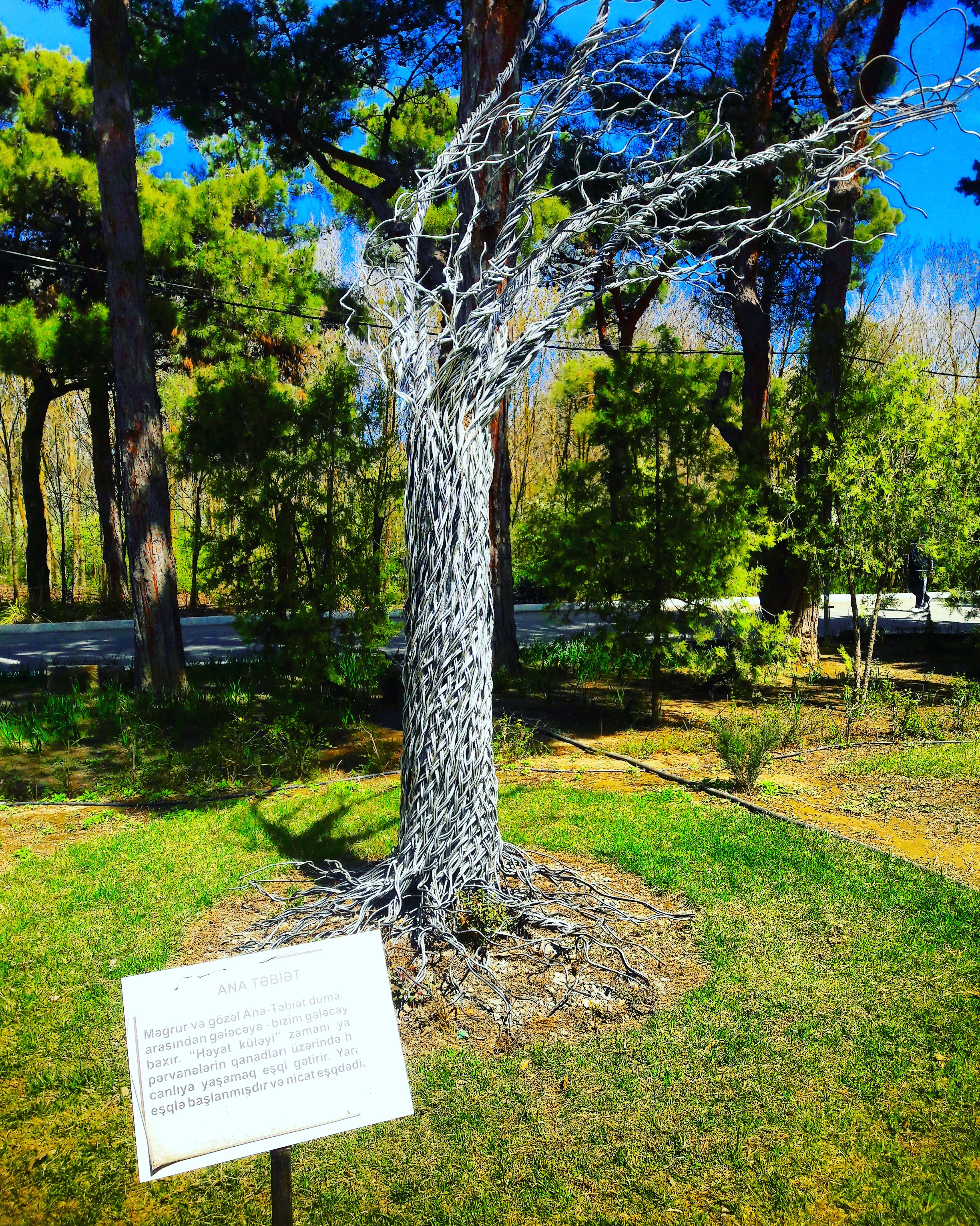 The Tree is called "Life Breeze". Over 2,000 kinds of trees, shrubs and flowers of Azerbaijani flora are collected there. There is a greenhouse, a plot of land for growing citrus plants and flowers, and a forest park in the garden. The Central Botanical Garden plays a vital role in preserving the gene pool of rare plants, and it is also a favorite destination for nature lovers.